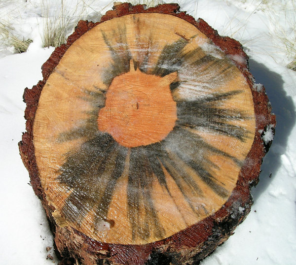 Blue stain fungus of unknown species on wood